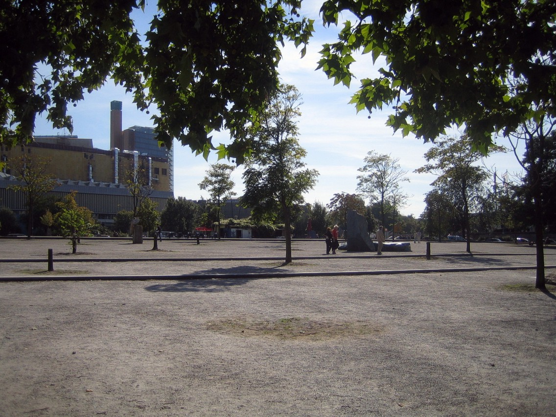 "Kulturforum Berlin", view to south-east.